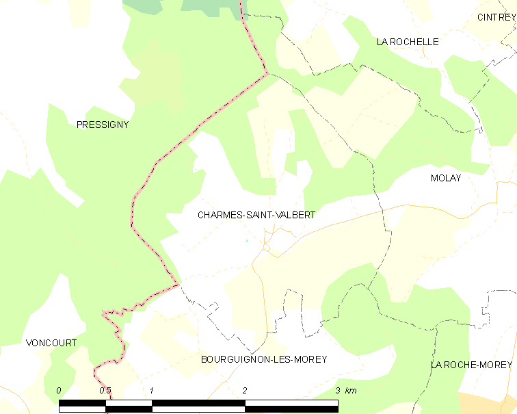 Map of French municipality